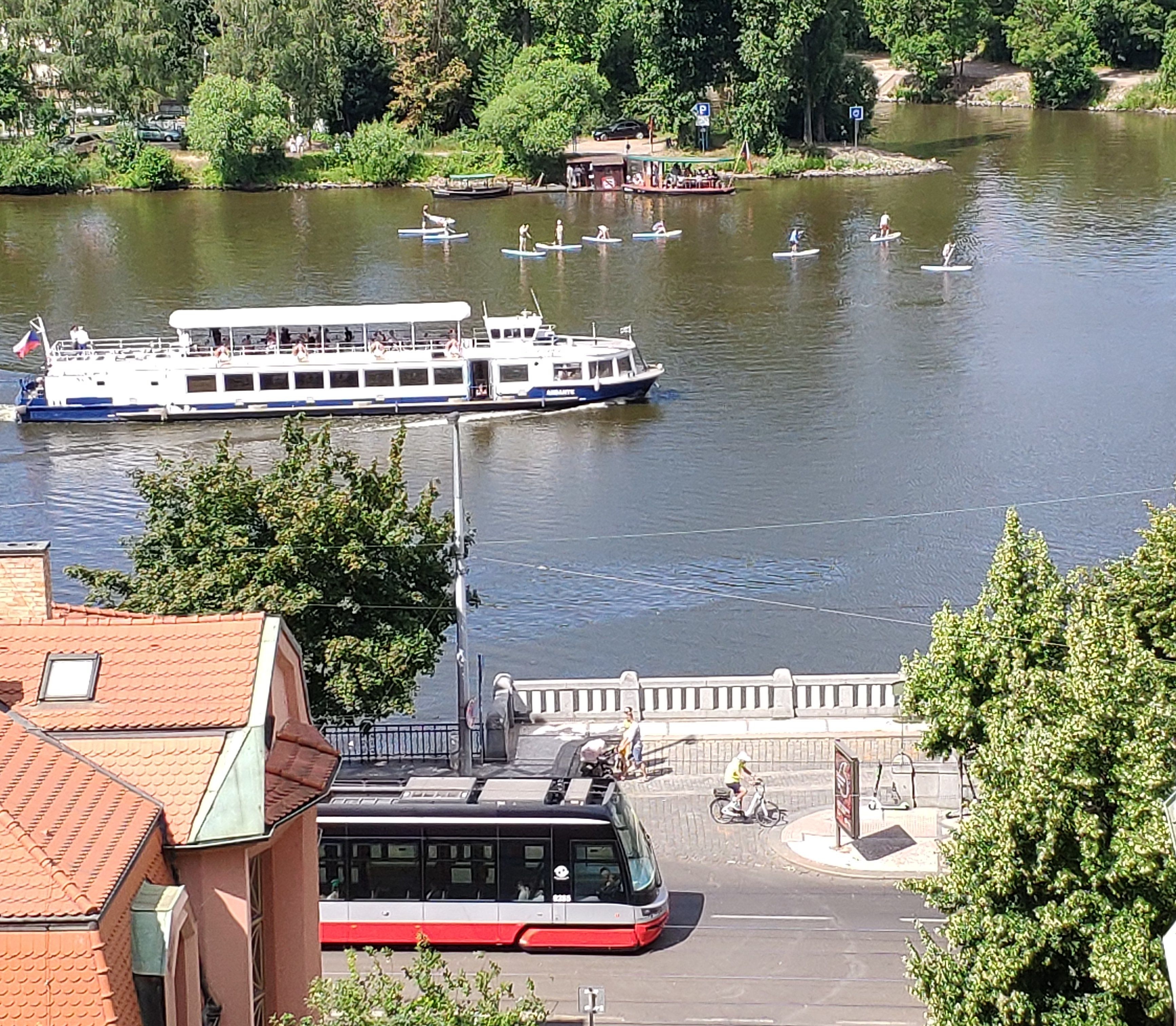 In one picture, there are seven different sustainable transportations at Prague: tram, bike, stroller, walking, kick scooter, boat and stand up paddle boarding.